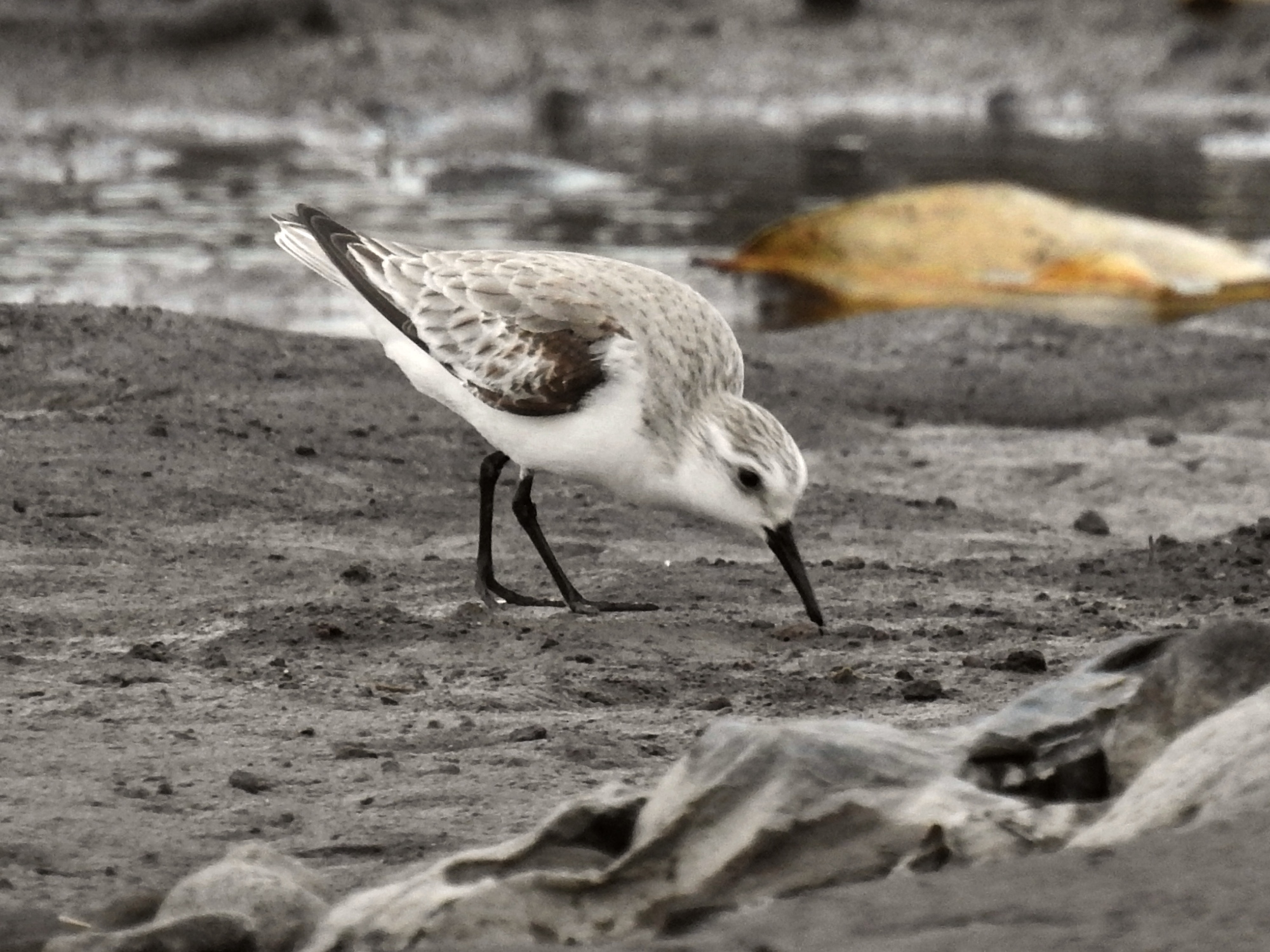 Sanderling, Calidris alba. From south Lumajang, East Java, Indonesia.